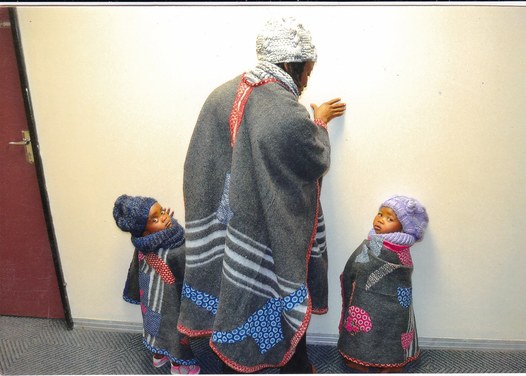 Teaching the young ones to model the attire. This is an image of "African people at work" from Lesotho